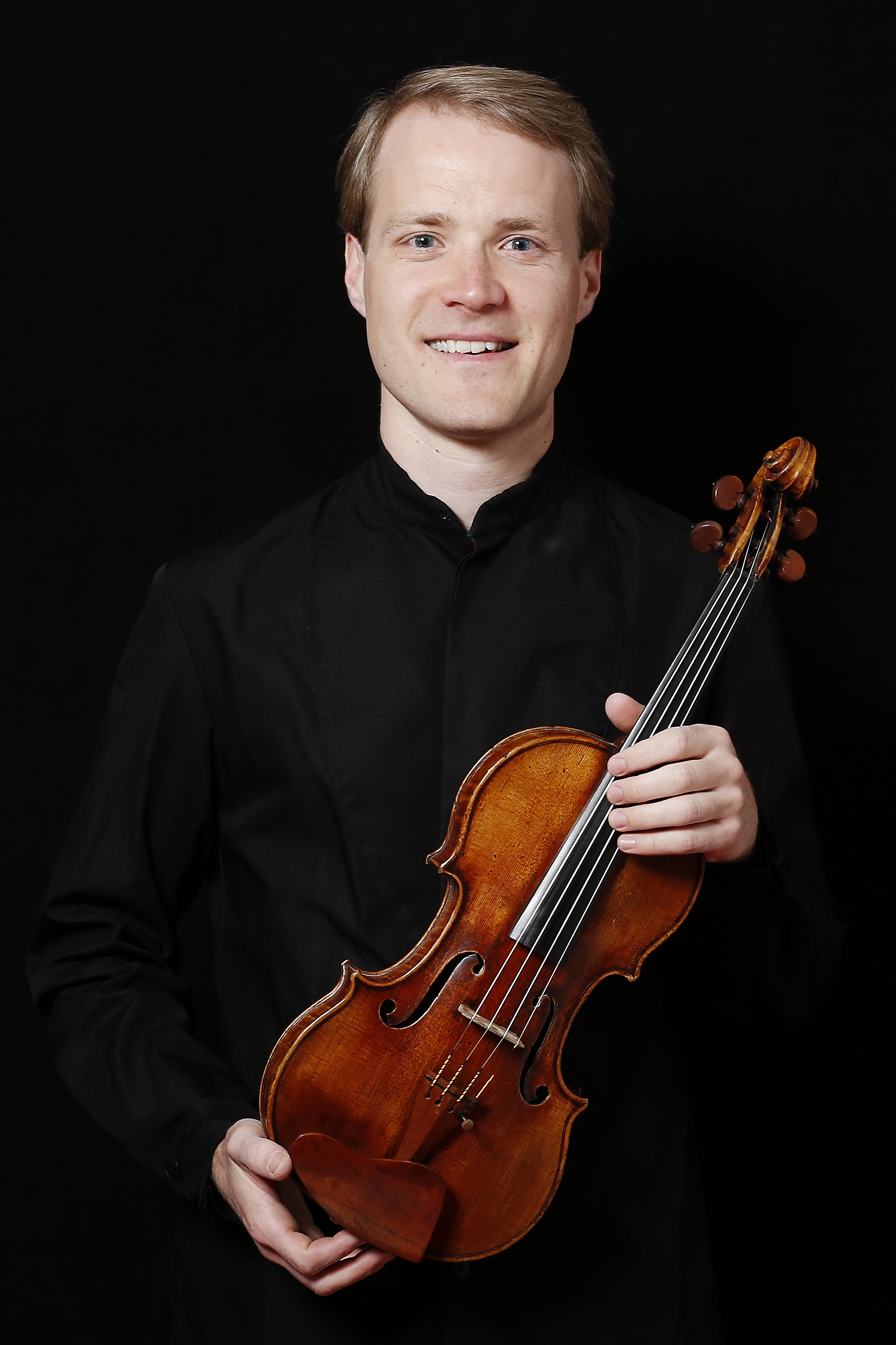 Christoph Koncz. FESTIVAL DE PAQUES 2019. AIX EN PROVENCE. PHOTO CAROLINE DOUTRE